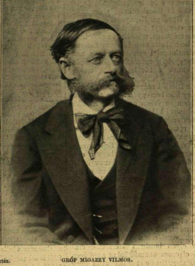 Portrait of Migazzi Vilmos